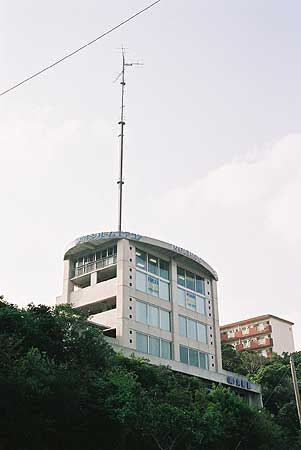 FM21 Radio Broadcasting Station in Okinawa